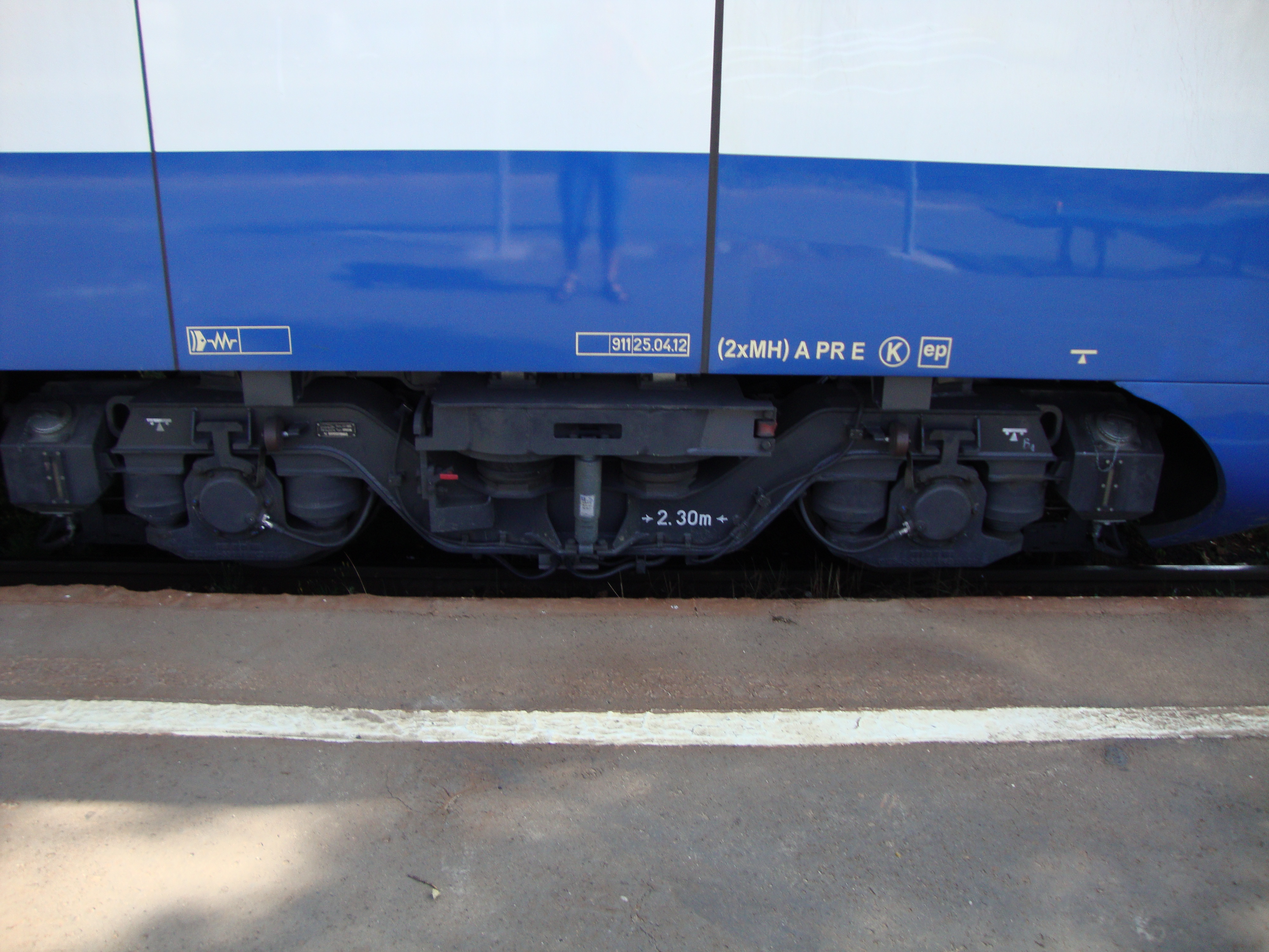 One of four power bogies in PESA 33WE EMU.